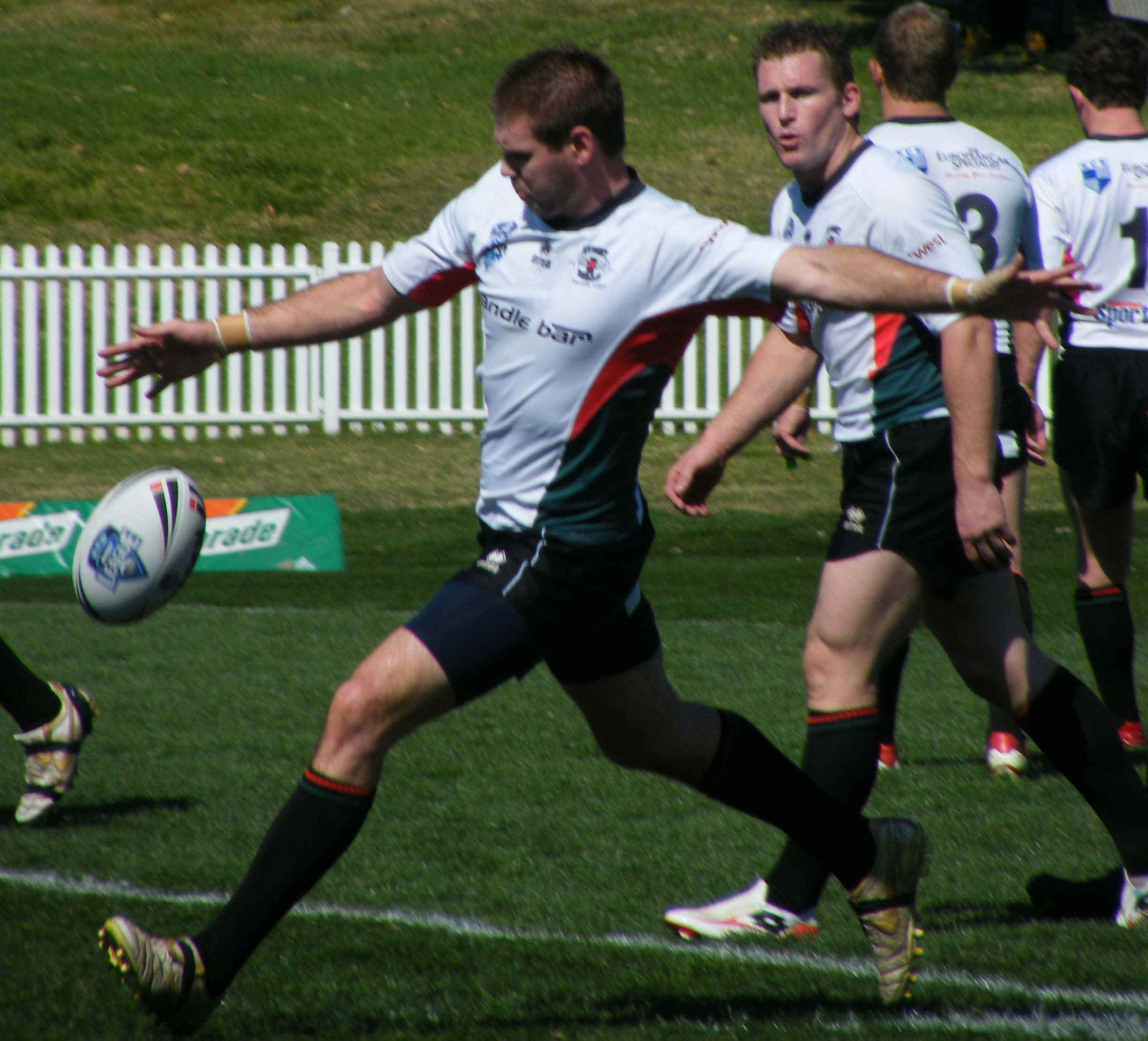 Nathan Wynn looks to find touch.